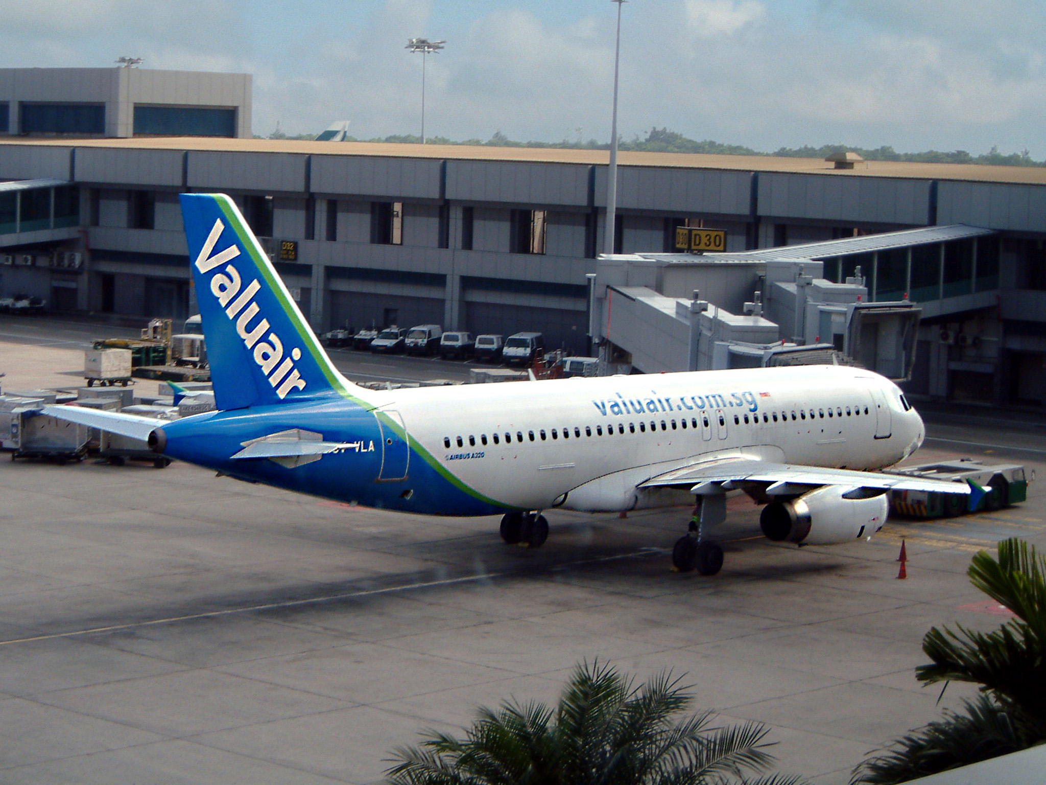 Valuair Airbus A320-232, registration no. 9V-VLA, at Singapore Changi Airport Terminal 1